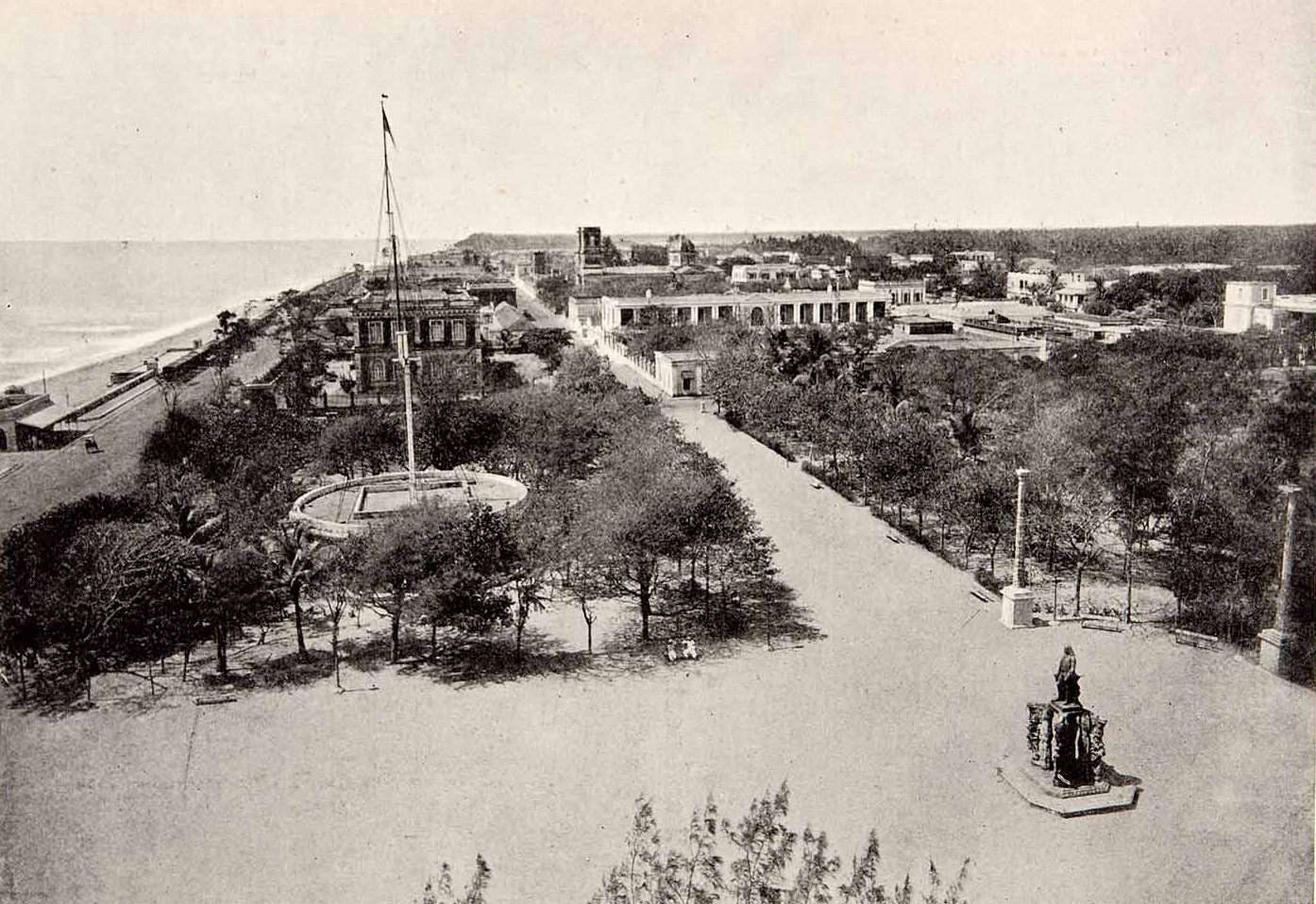 Waterfront of Pondicherry, French India. In the foreground: Dupleix Park, with statue of Dupleix on the right. 1903 print of an 1890 photograph.